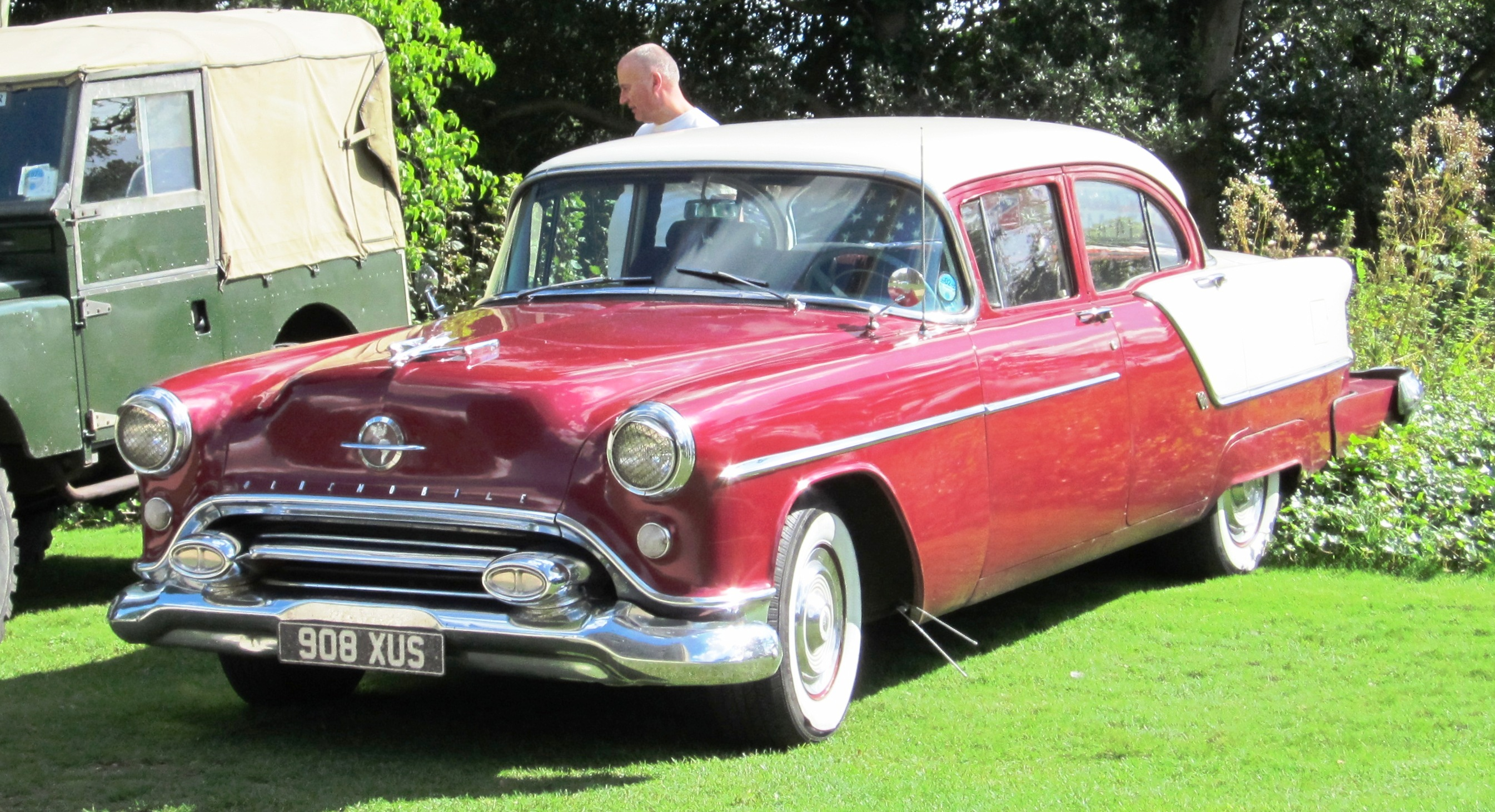 1954 Oldsmobile 88 four-door sedan, which may have been admired by someone (or one of the team) who styled the Humber Hawk in the late 1950s